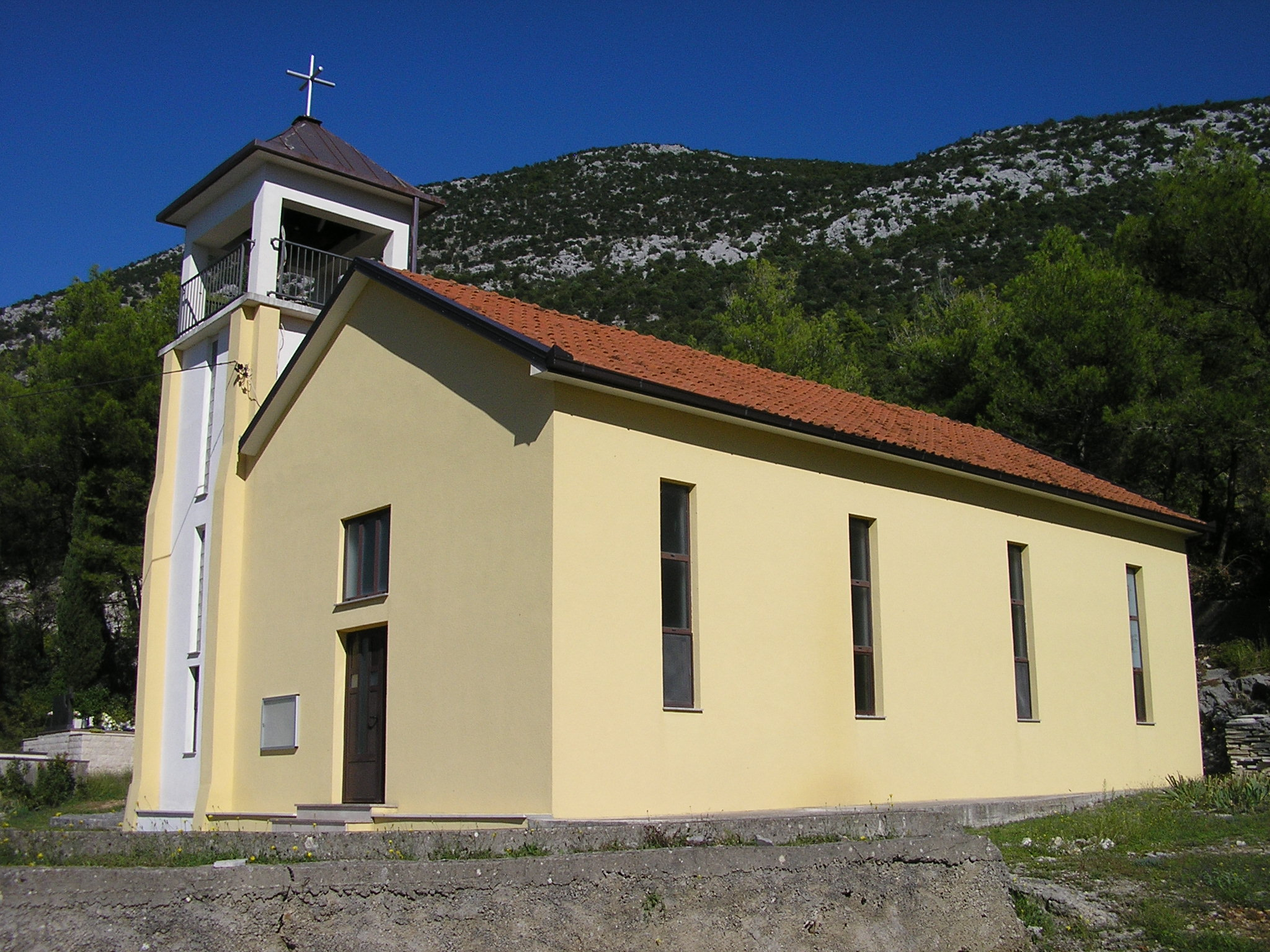 Our Lady's church in Kobiljača